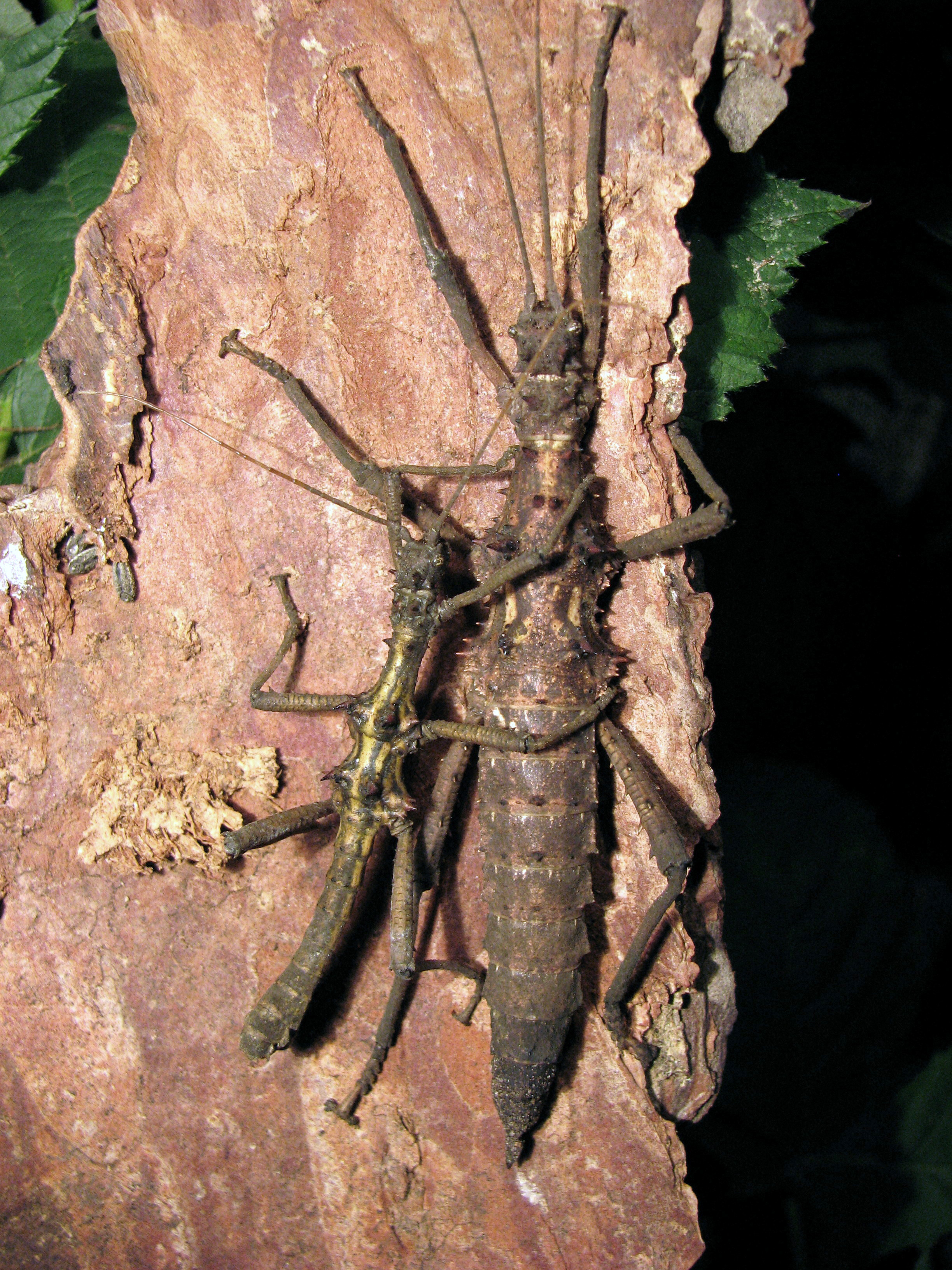 Thorny Stick Insect (Aretaeon asperrimus), pair